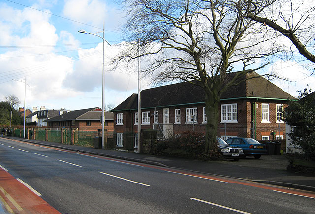 East Midland Universities OTC With behind the newer building for the RAF squadron.